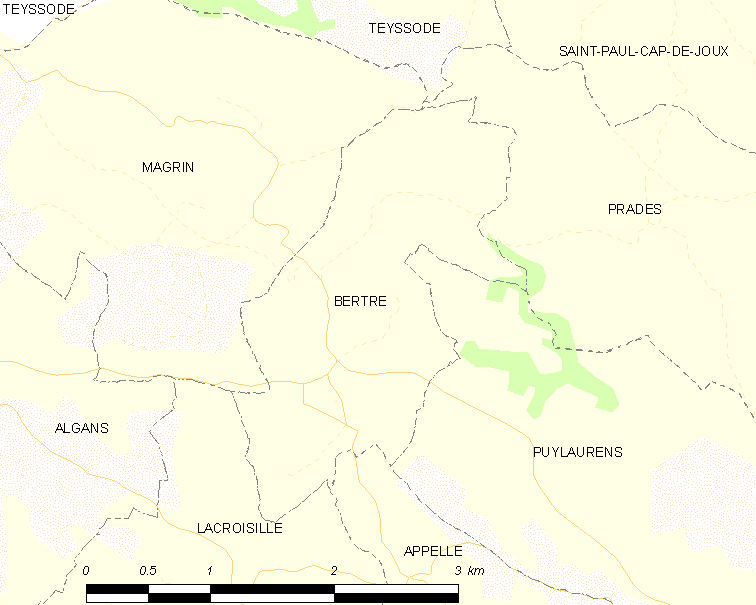 Map of French municipality Bertre